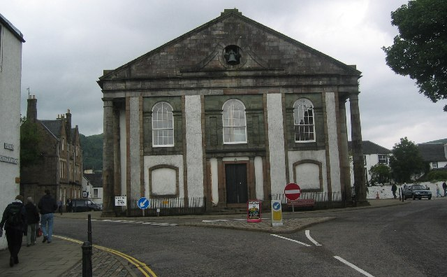 Glenaray and Inveraray Parish Church. Built in 1795-1802 as a double church with one side for the Highland (Gaelic speaking) congregation and the other for the Lowland (English speaking) congregation.